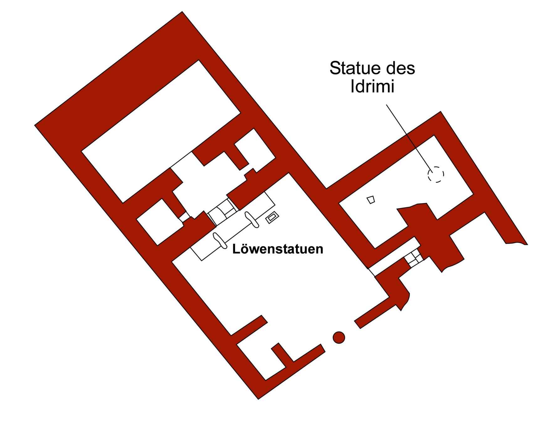 Alalakh, Temple of Level I, Woolley, Forgotten Kingdom, p. 166, fig. 25